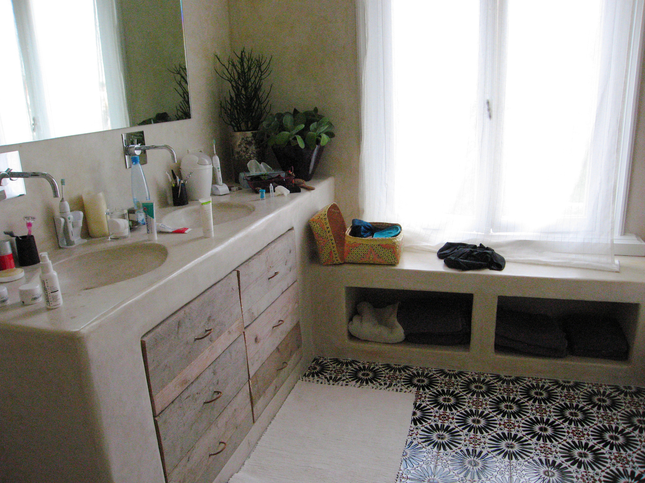 Washbasin in Tadelakt a bright, nearly waterproof lime plaster